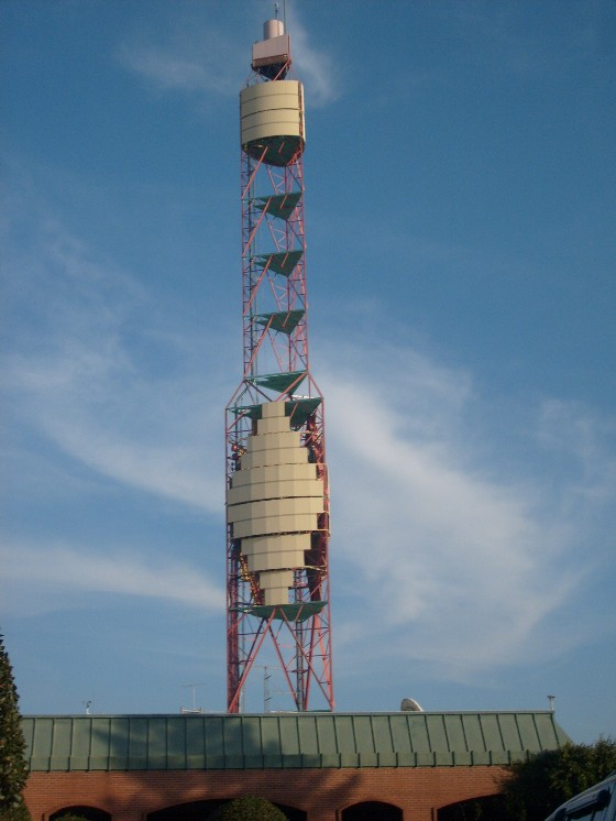 weather tower, November 2007